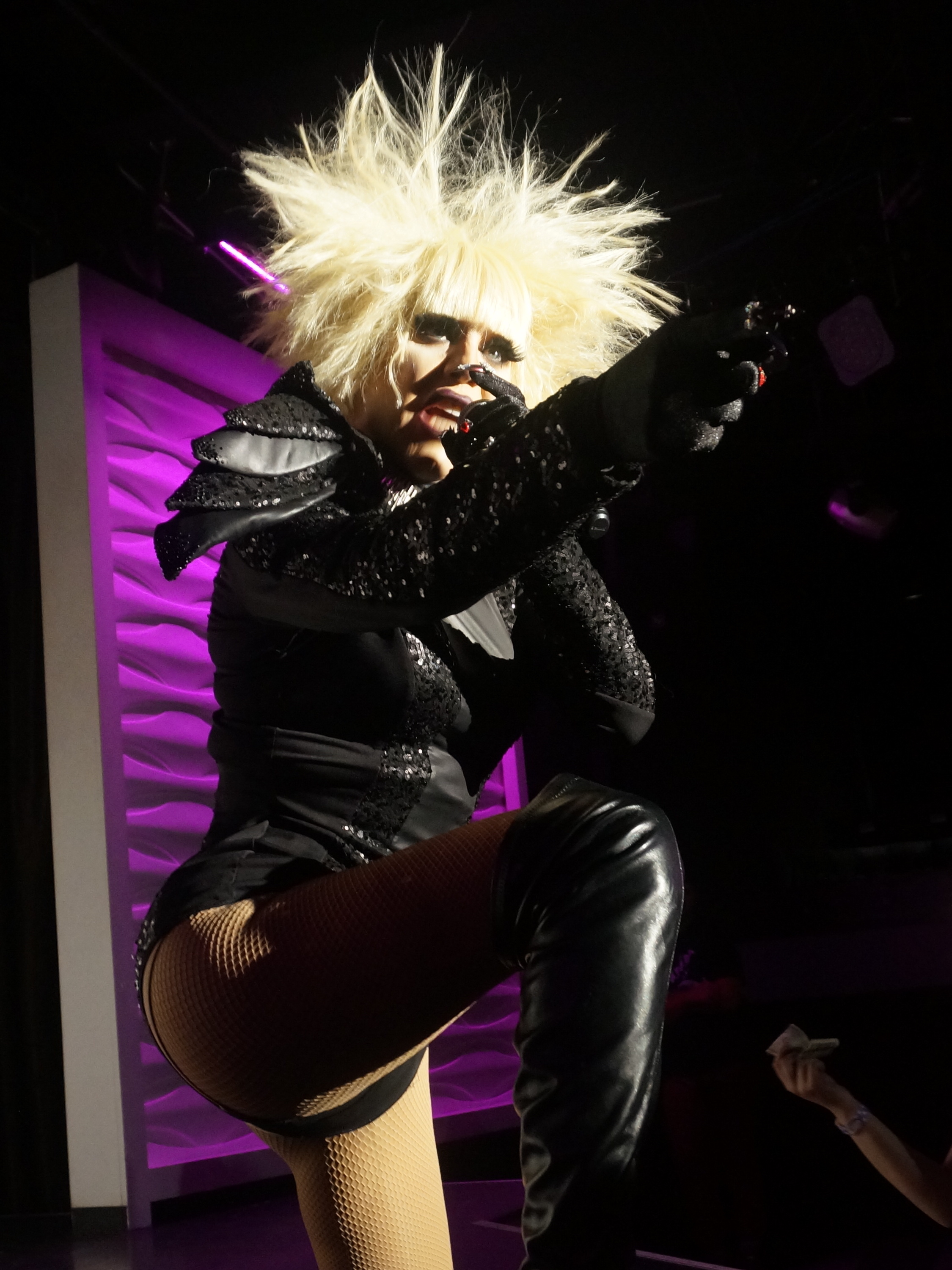 Sharon Needles performing at Play in Nashville, Tennessee, United States